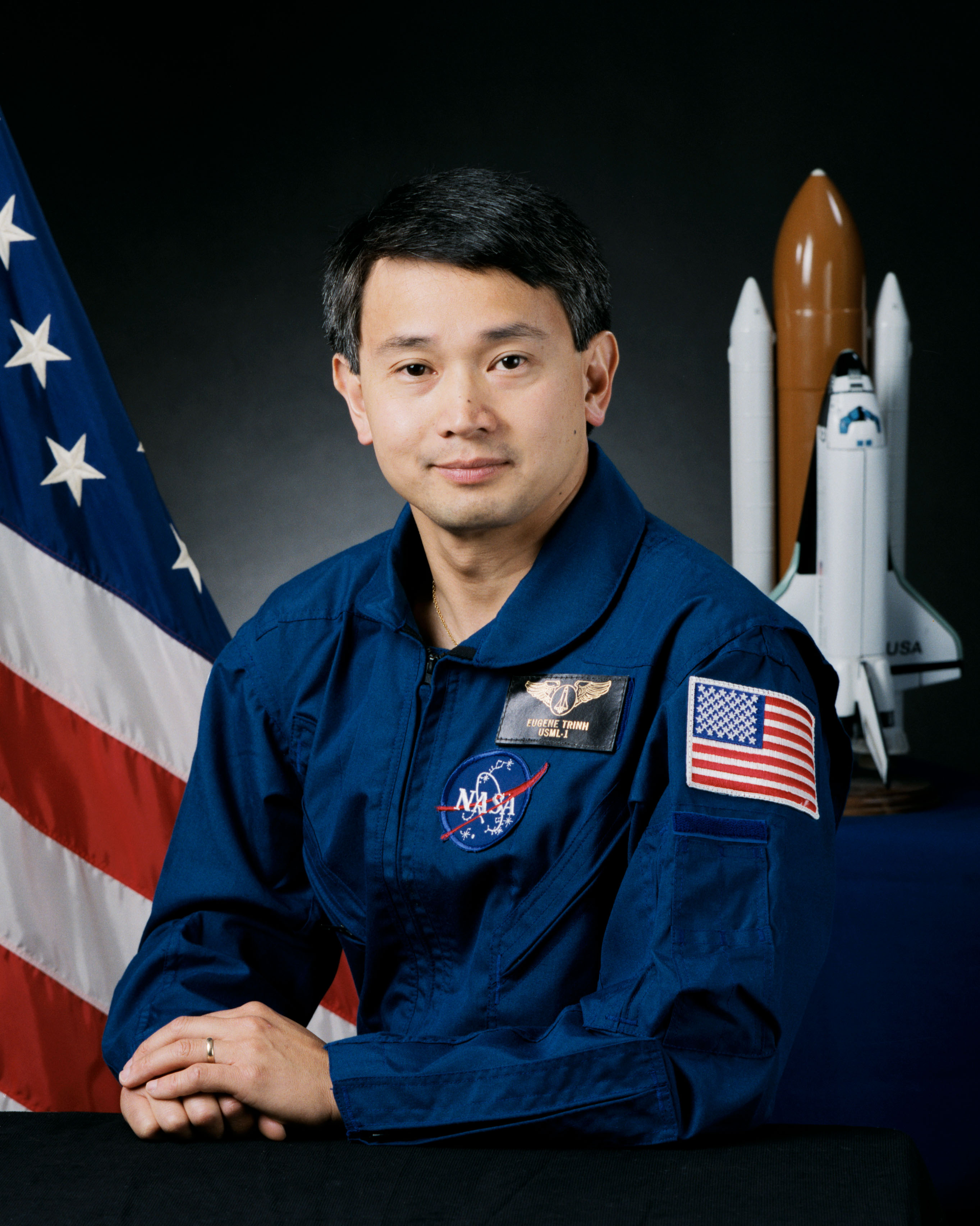 Dr. Eugene Trinh, Ph.D. NASA Astronaut. Dr. Trinh is also the Director of the Physical Sciences Research Division in the Biological and Physical Research Enterprise at NASA Headquarters.